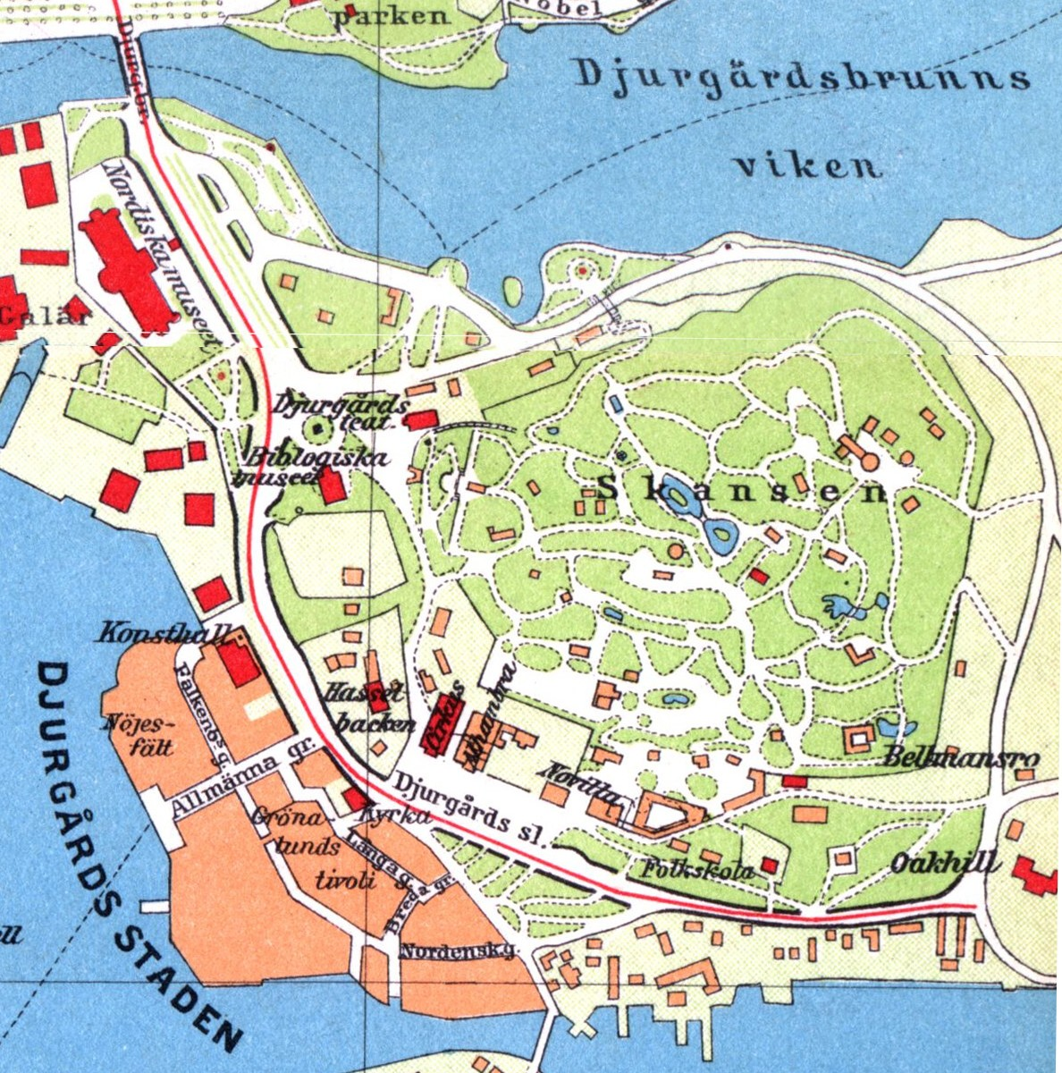 Skansen in the 1920s. From the work of cartographer :sv:Herman Edvard Cohrs (1858 - 1934).